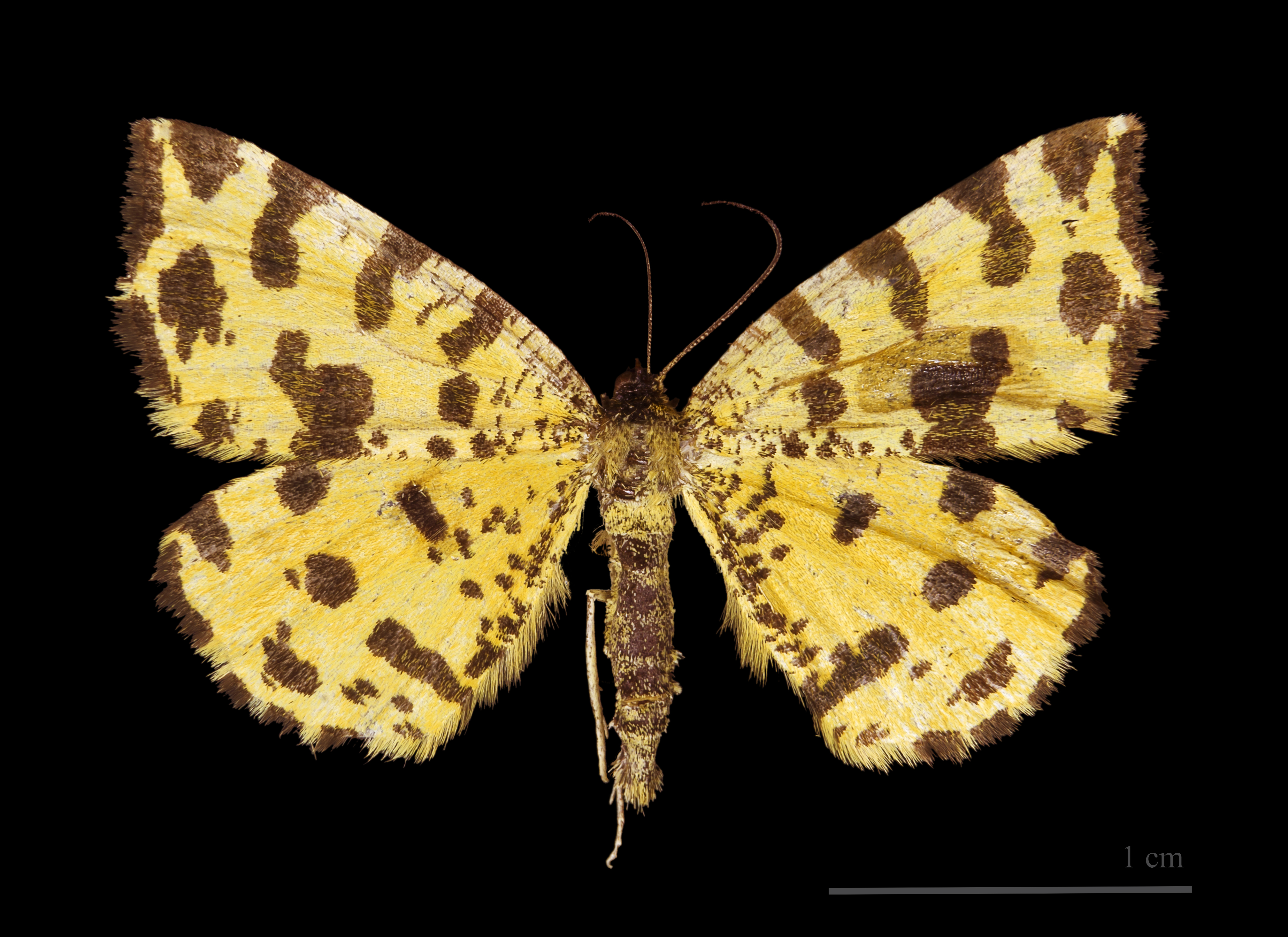 Speckled Yellow ♂ - Dorsal side Locality: Peyroutets, Fontenilles, Haute-Garonne, France